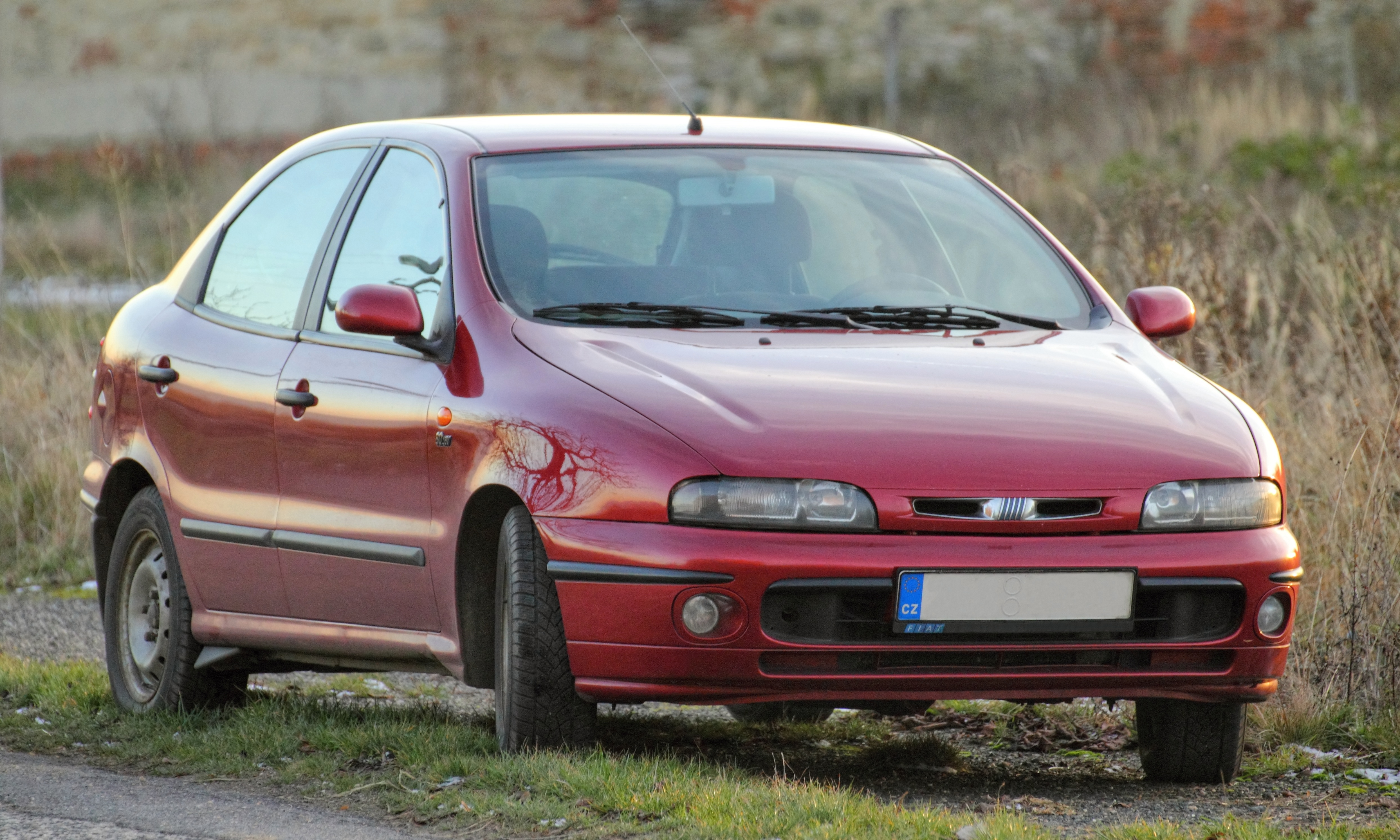 Fiat Brava SX 80 16V